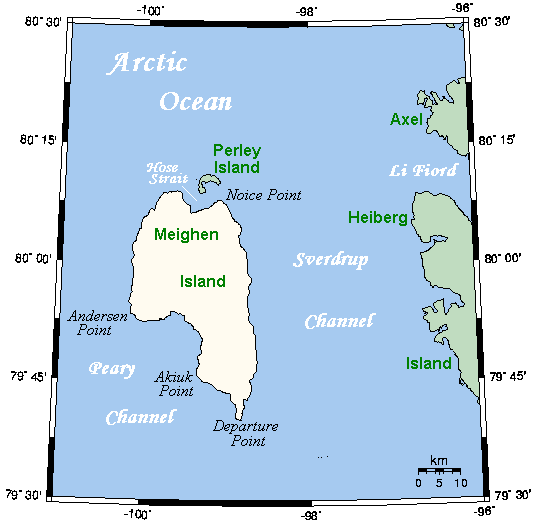 A map showing Meighen Island and nearby islands. This map's source is here, with the uploader's modifications, and the GMT homepage says that the tools are released under the GNU General Public License.